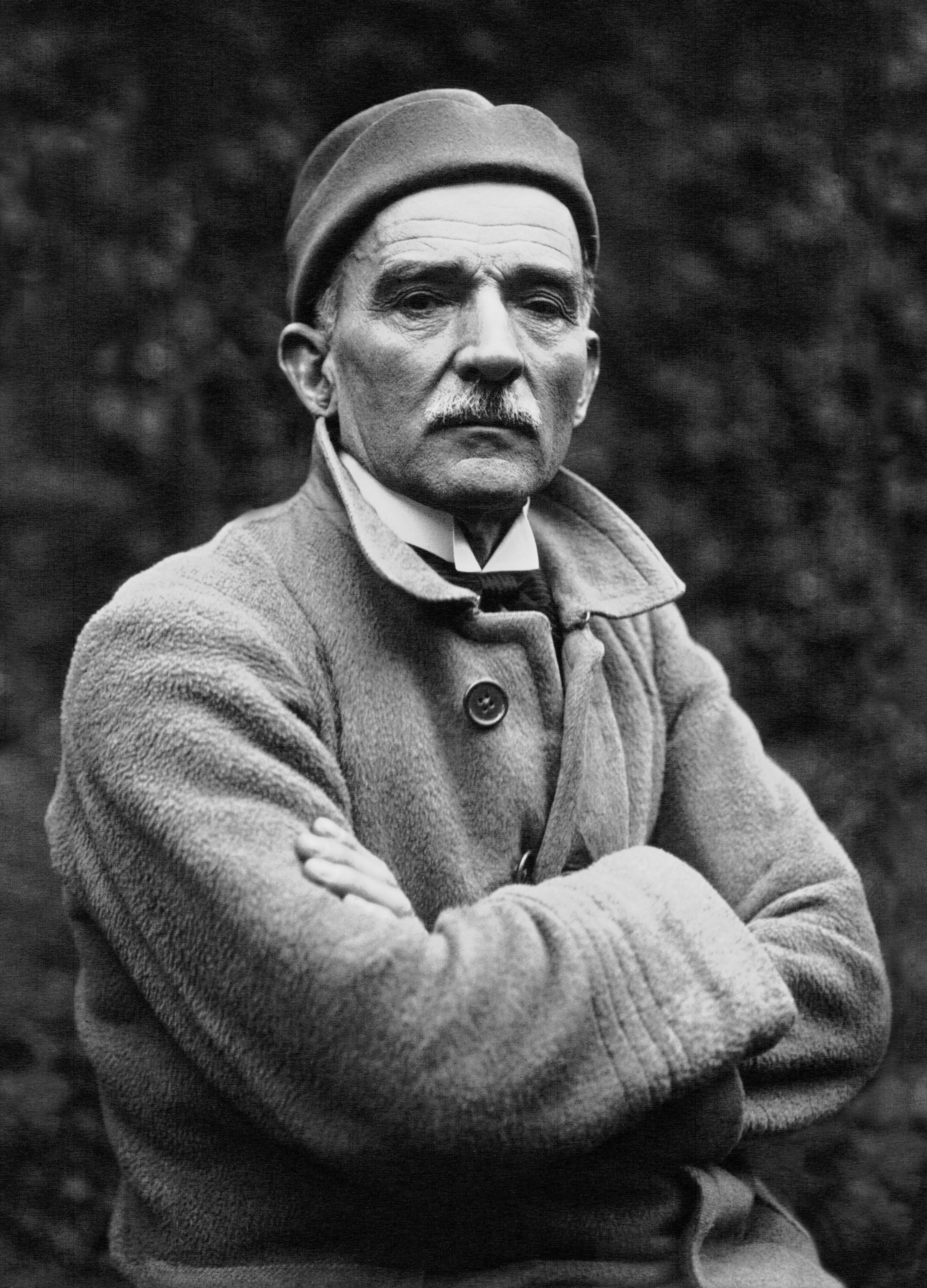 Denys Puech (1854-1942), French sculptor. Picture taken in 1921, when he was the head of the Villa Medici in Rome. Retouched print.